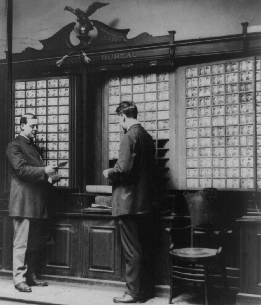 Crime - N.Y. Police, Rogues' Gallery. Cropped for clarity.